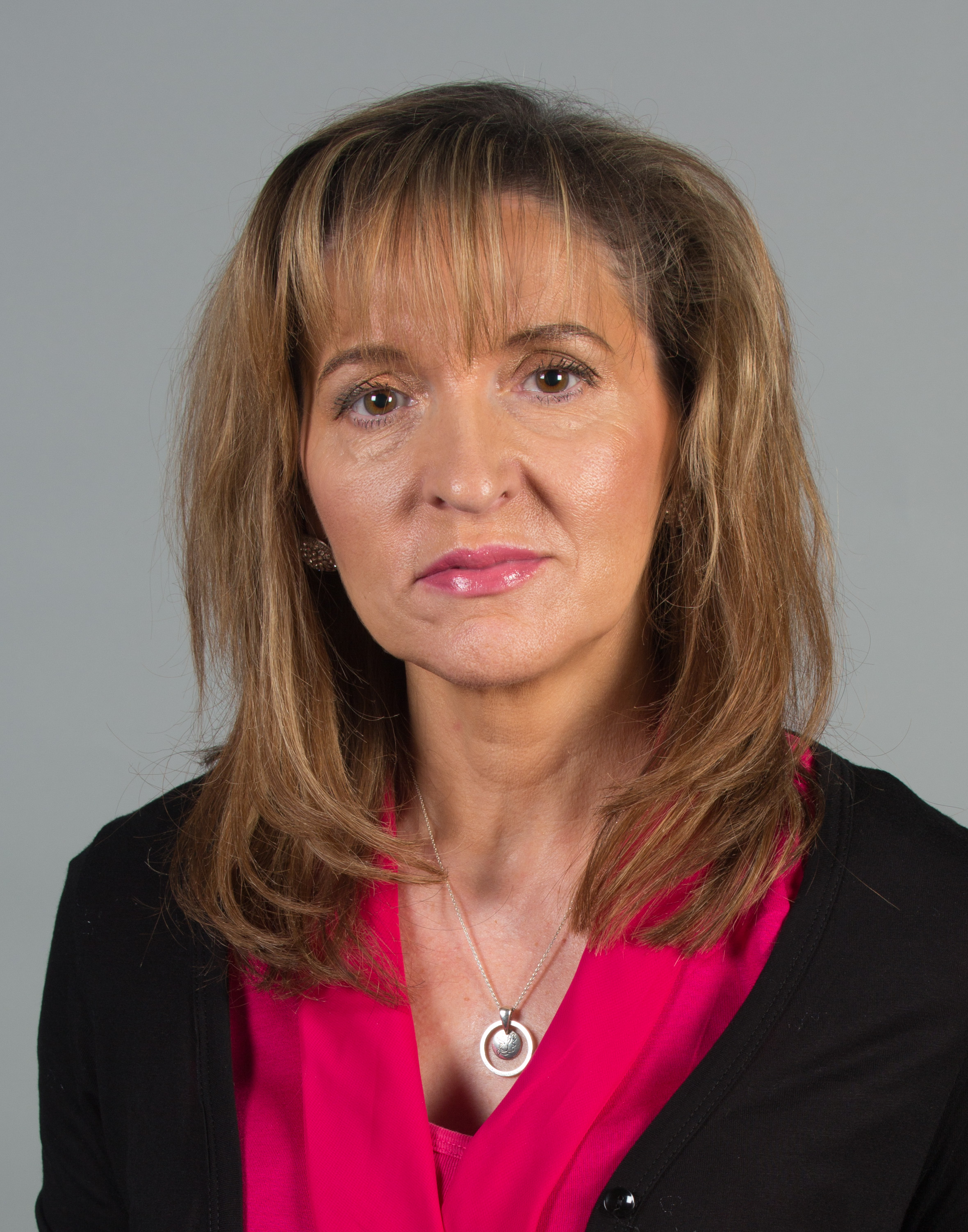 Martina Anderson, Member of the European Parliament for Northern Ireland/United Kingdom in Strasbourg, France